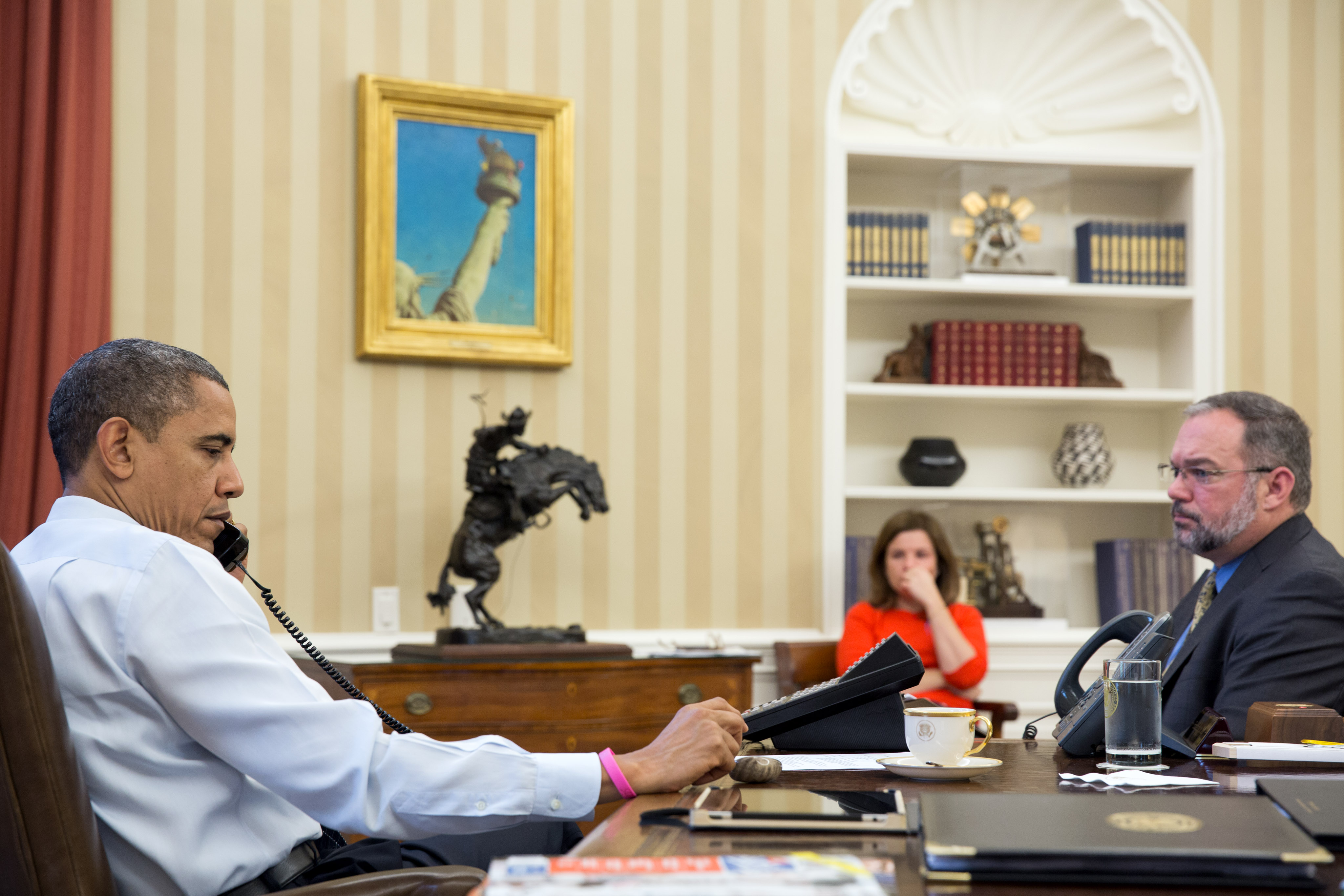 United States President Barack Obama is briefed on the response to Hurricane Sandy during a conference call with FEMA Administrator Craig Fugate, Dr. Rick Knabb, Director of the National Hurricane Center, and John Brennan, Assistant to the President for Homeland Security and Counterterrorism, in the Oval Office on 26 October 2012. Alyssa Mastromonaco, Deputy Chief of Staff for Operations, and Richard Reed, Deputy Assistant to the President for Homeland Security, are seated at right. (Official White House Photo by Pete Souza) This official White House photograph is in the public domain from a copyright perspective, so while restrictions such as personality or privacy rights may apply, in general, manipulations are allowed." [1]